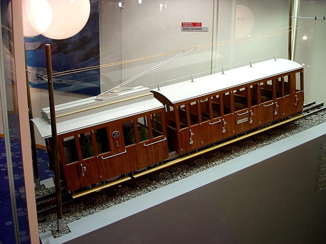 Jungfraubahnen, model